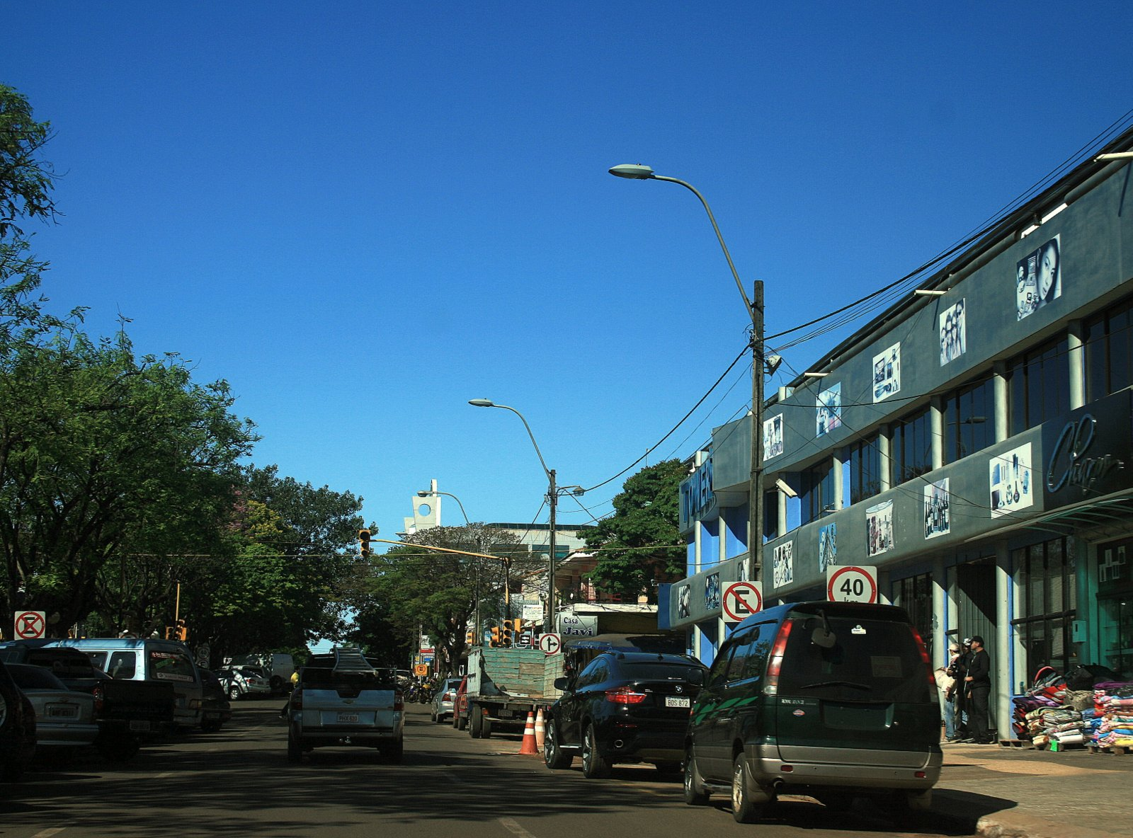 Salto del Guairá downtown street scene.